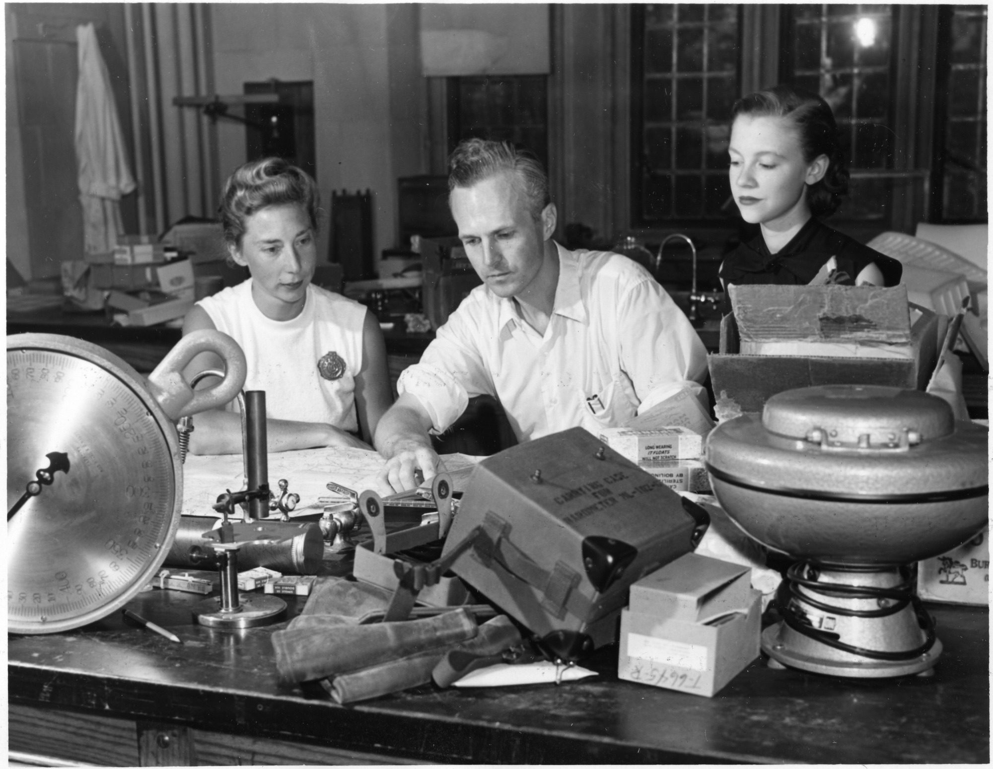 Subject: Schmidt-Nielsen, Bodil Schmidt-Nielsen, Knut 1915- Wagner, Barbara Duke University Type: Black-and-white photographs Topic: Physiology Zoology Camels Women scientists Local number: SIA Acc. 90-105 [SIA2009-2749] Summary: left to right: Bodil Mimi Krogh Schmidt-Nielsen (b. 1918), Knut Schmidt-Nielsen (1915-2007), and Barbara Wagner. The Schmidt-Nielsens were professors in comparative physiology at Duke University and Wagner was a secretary in the Duke zoology department. They are shown with research equipment being assembled for an expedition to the Sahara Desert to study camels. In the left foreground is a scale used for weighing camels Cite as: Acc. 90-105 - Science Service, Records, 1920s-1970s, Smithsonian Institution Archivess Persistent URL:Link to data base record Repository:Smithsonian Institution Archives View more collections from the Smithsonian Institution.